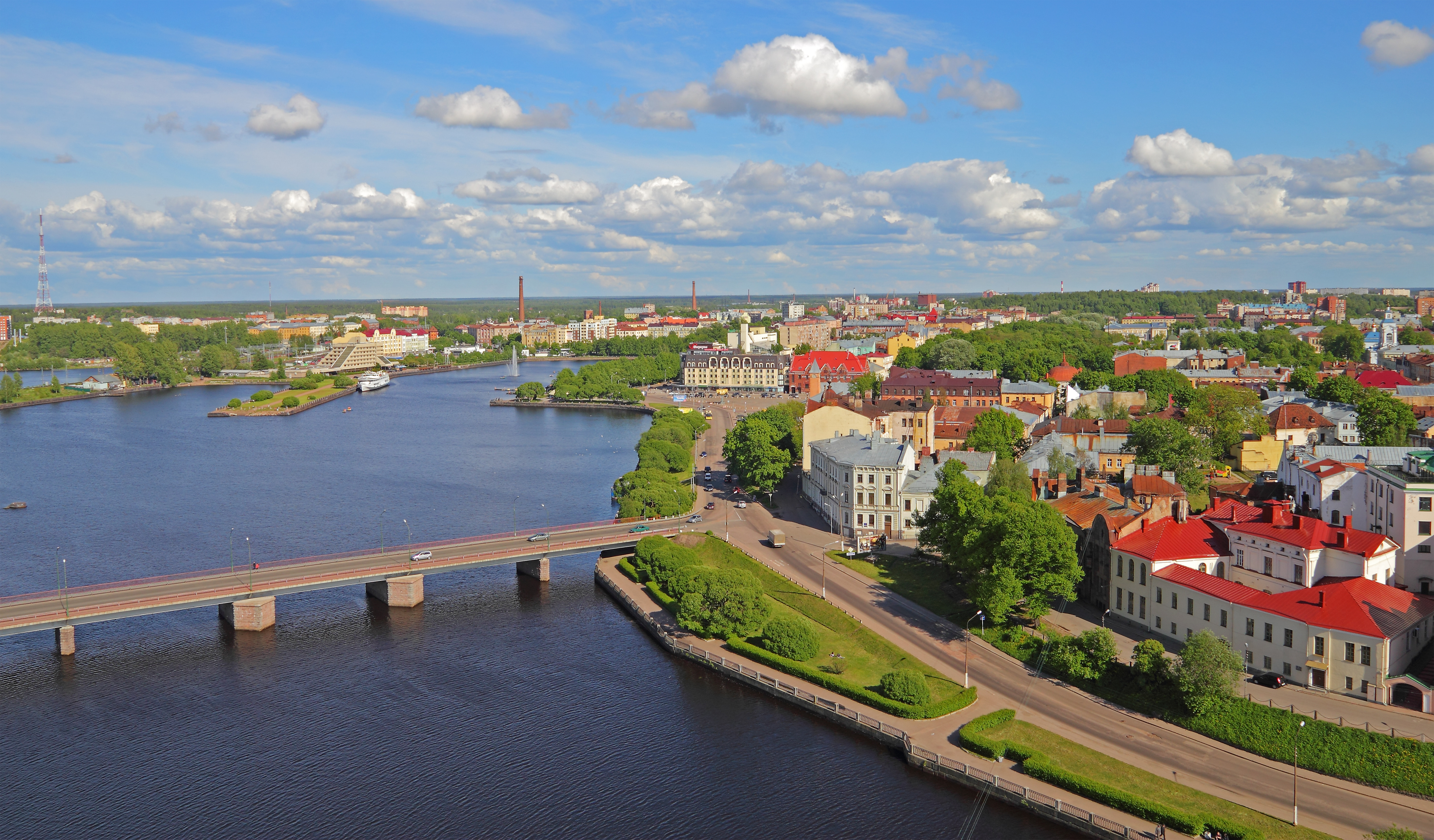 Vyborg (former Viipuri), Leningrad Oblast, Russia. Views from the Olaf Tower of the Vyborg Castle.